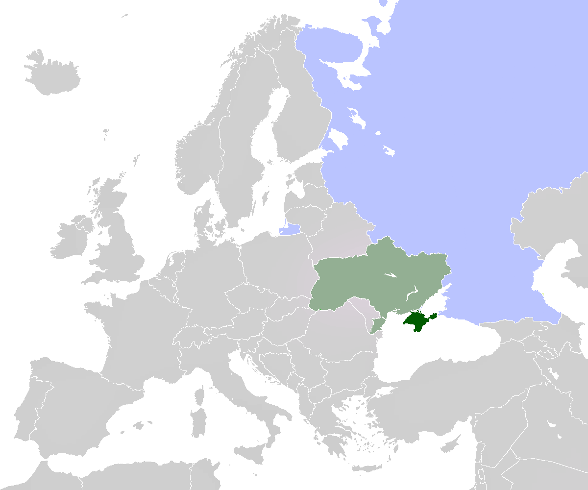 map of Europe, highlighted Ukraine with Crimea, and Russia